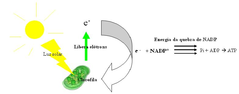 This is the cicle of fotofosforilation